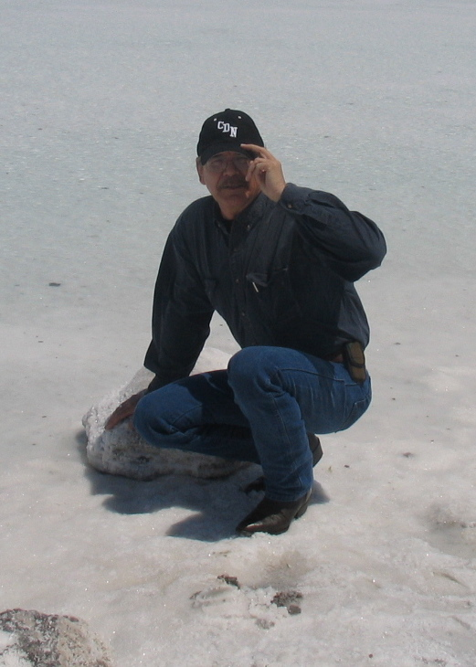 photo at Bonneville Salt Flats